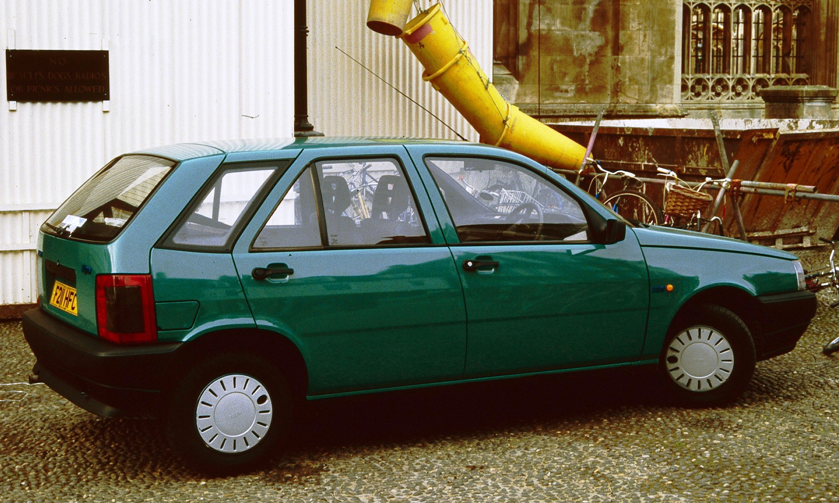 Fiat Tipo (early one)